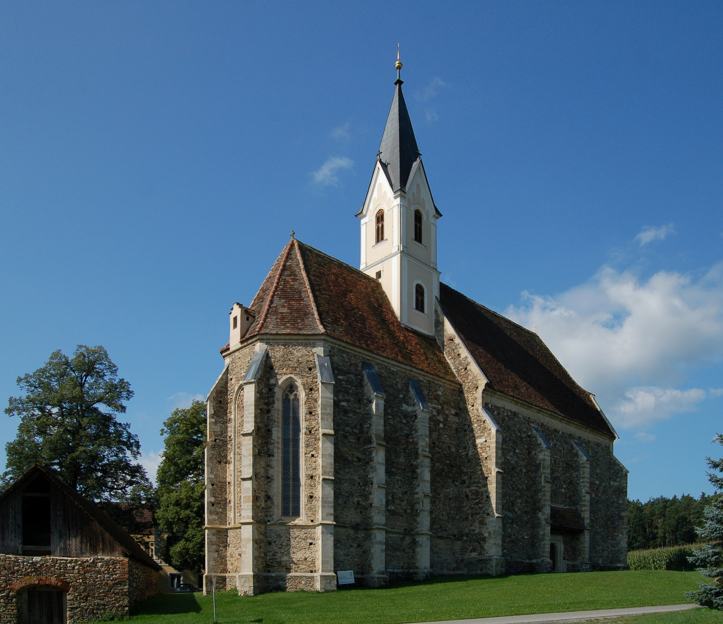 Gotic church St. Stefan in Hofkirchen bei Hartberg, Styria, Austria.